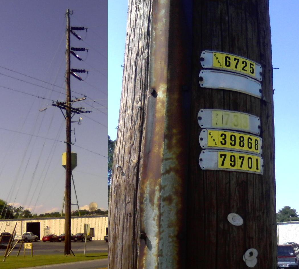 A picture of a Delmarva Power 69kV subtransmission pole in Crisfield, Maryland, United States, along with a closeup of its pole tag, showing the subtransmission route number, its pole number, and the two grid numbers.